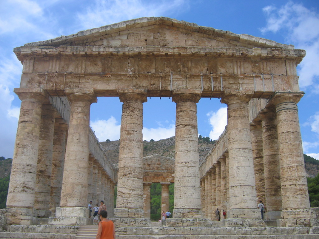 Temple of Segesta, Sicilia.